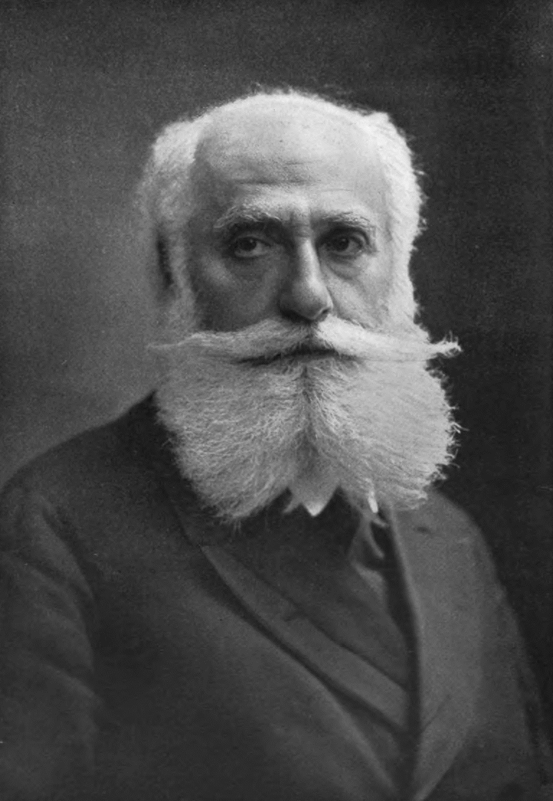 Max Nordau